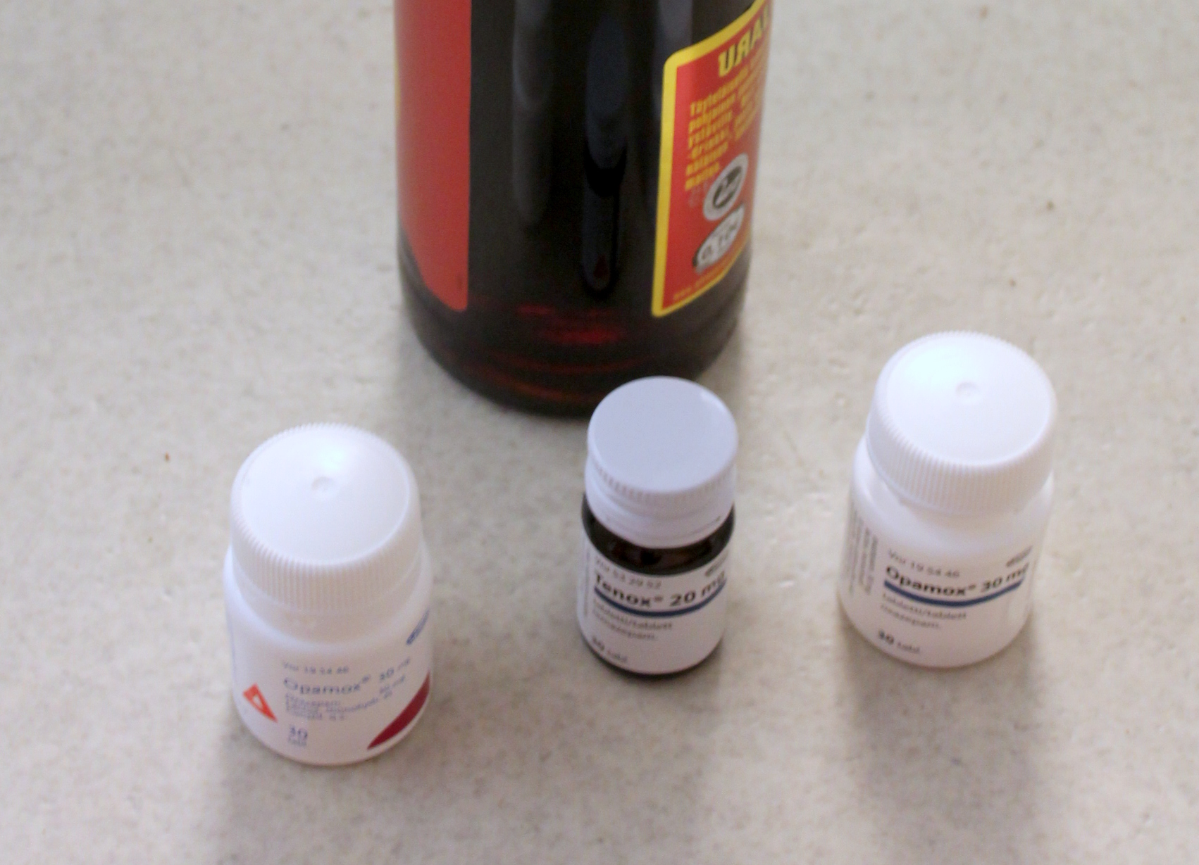 Poly drug use: alcohol and benzodiazepines